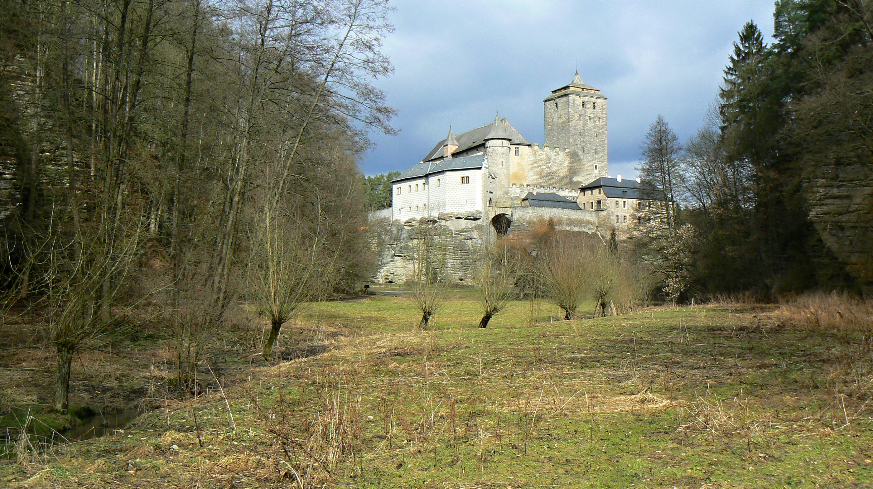 Plakánek Valley - view towards the Kost Castle